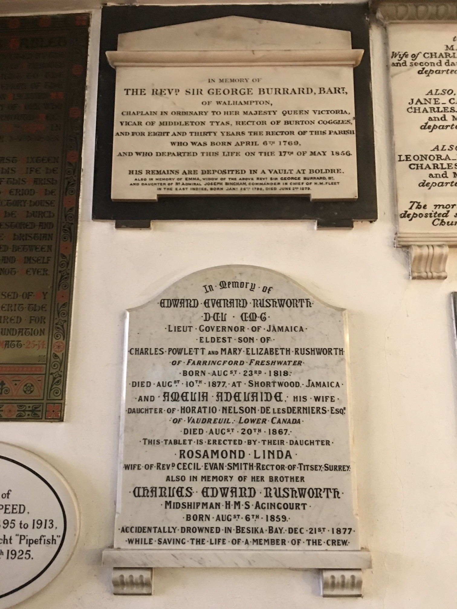 Memorials to Sir George Burrard, 3rd Baronet and Edward Rushworth in St James's Church, Yarmouth, Isle of Wight